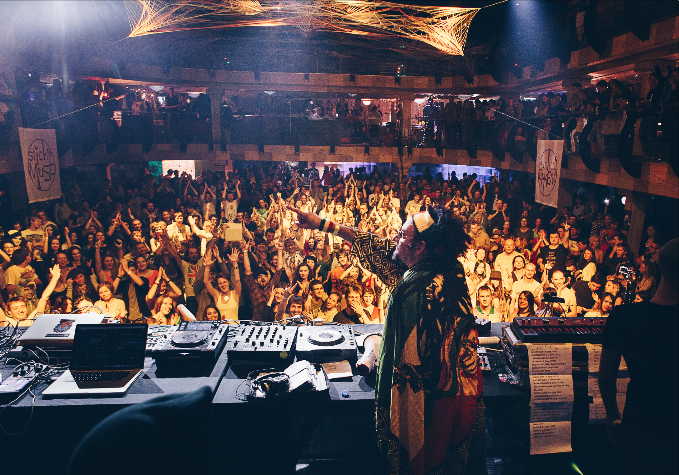 Gaudi, Russian tour 2014 (live in Moscow)